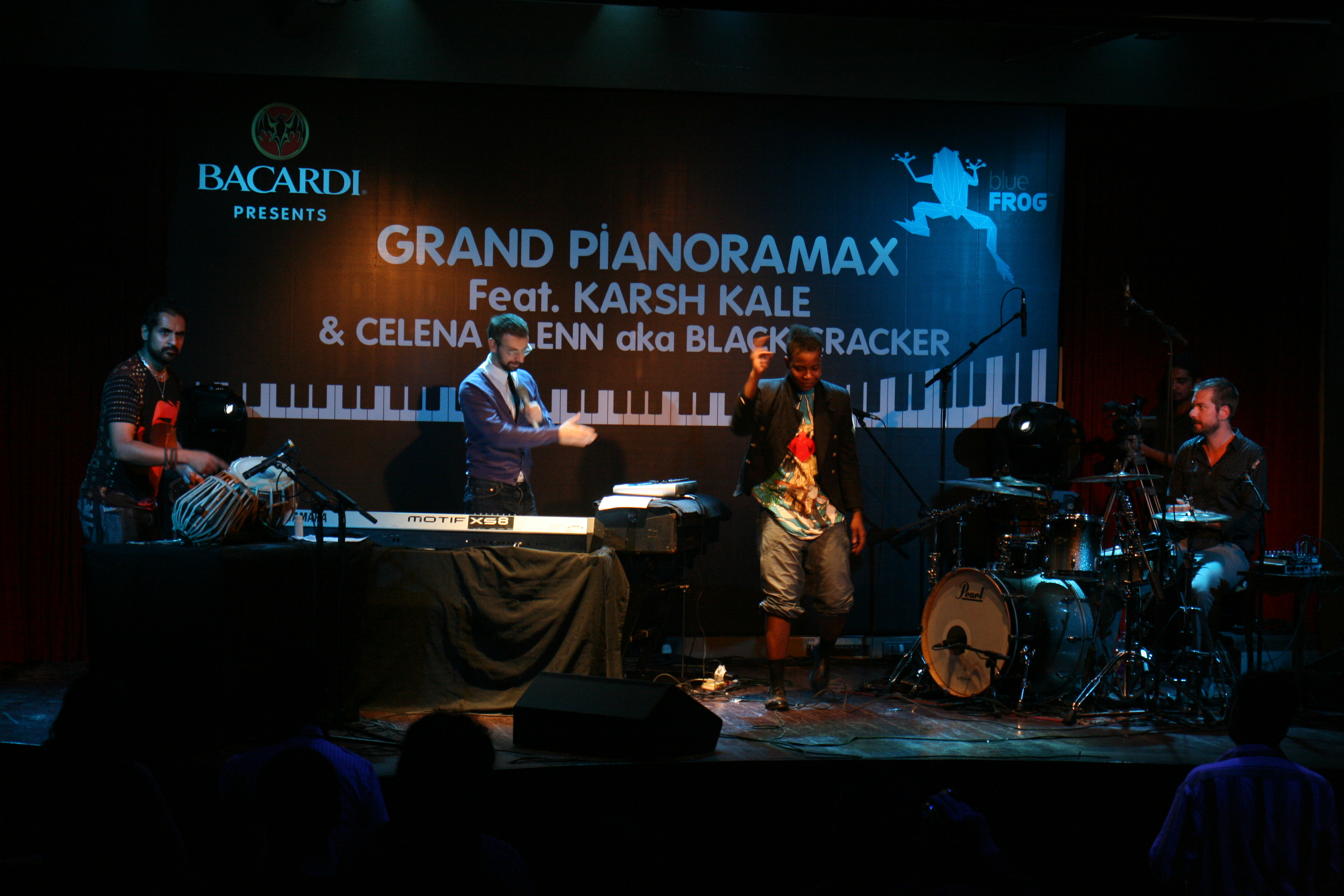 This is a photo of Leo Tardin on keys, Dominik Burkhalter on drums, Karsh Kale on tablas and Black Cracker providing the vocals at the Blue Frog Club in Mumbai, India.